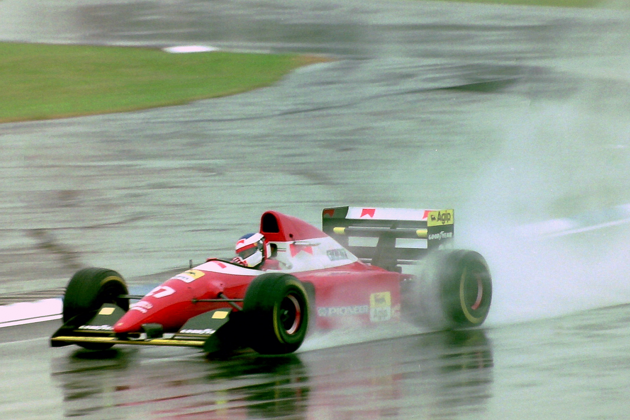 Jean Alesi - Ferrari F193 during practice for the 1993 British Grand Prix